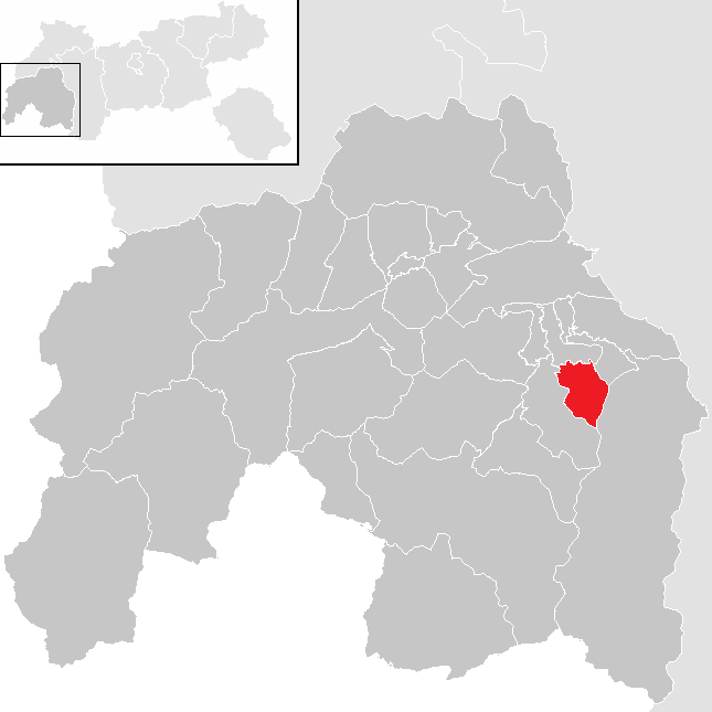 District Landeck